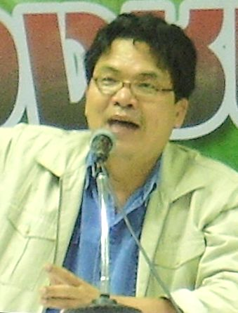 Somkeit Pongpaibul, a leader of People's Alliance for Democracy, in a seminar in Trang province, Thailand. I took and cropped the photo myself.